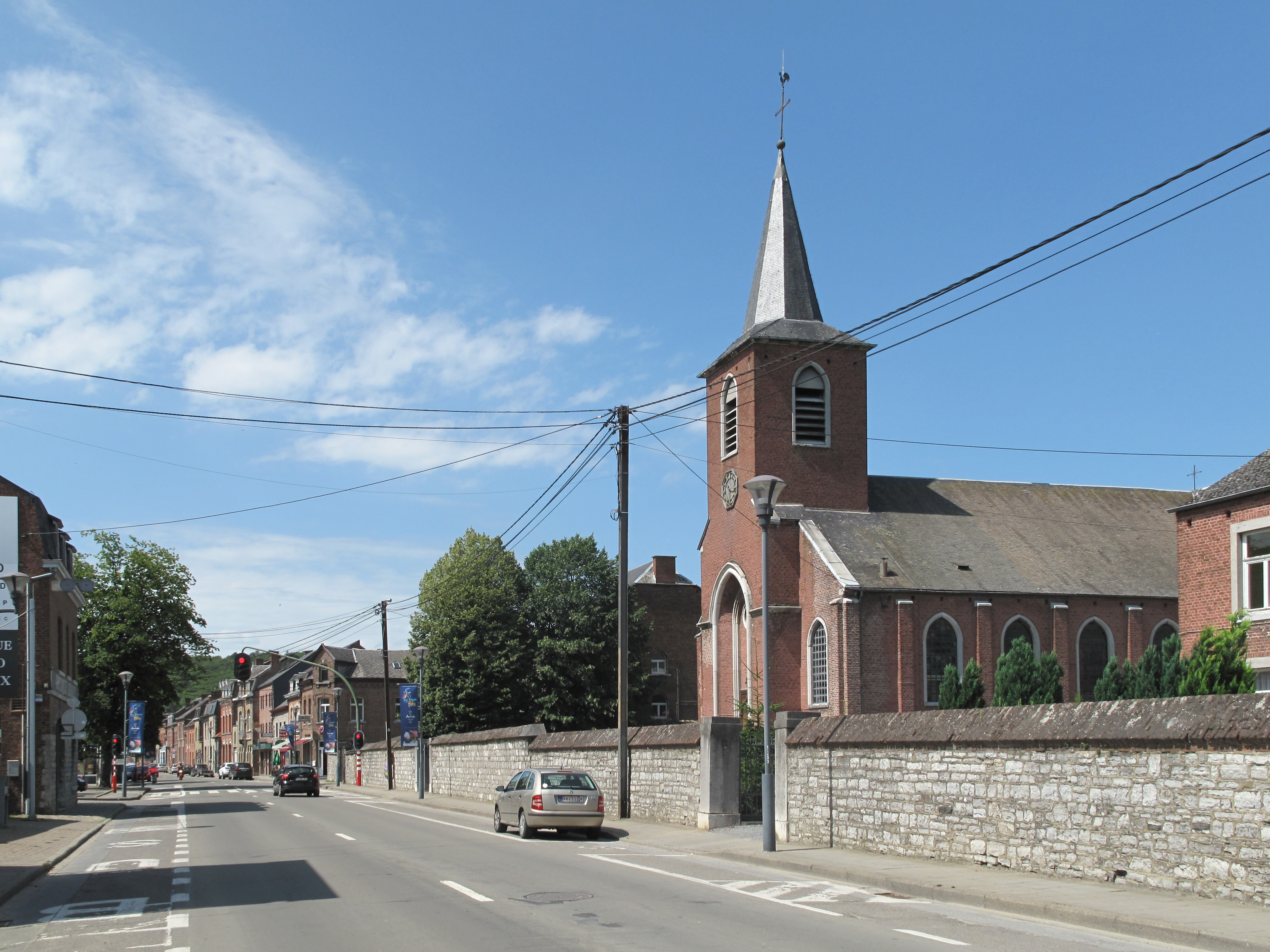 Anhée, church in the street